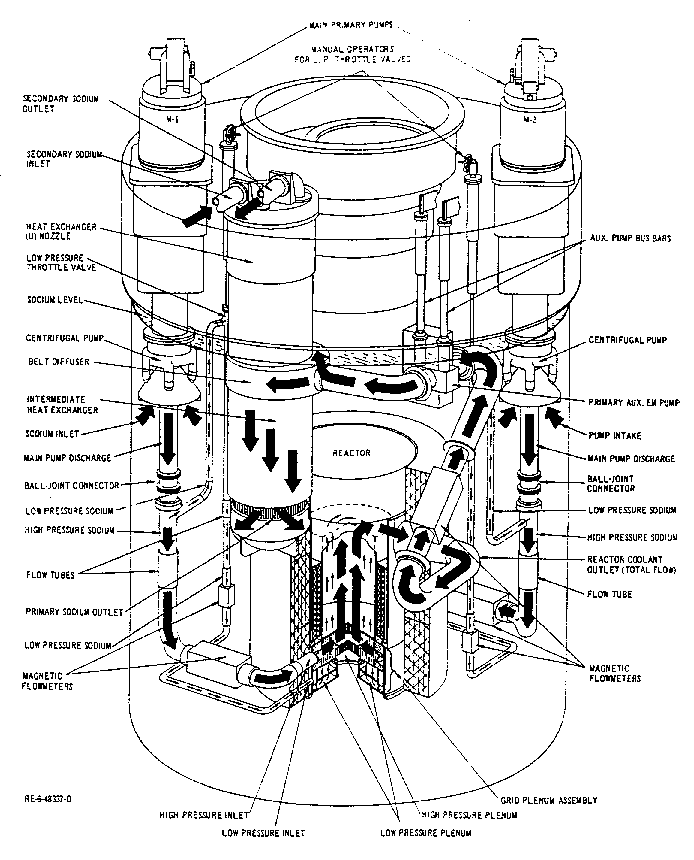 Experimental Breeder Reactor II. Schema of the primary tank.